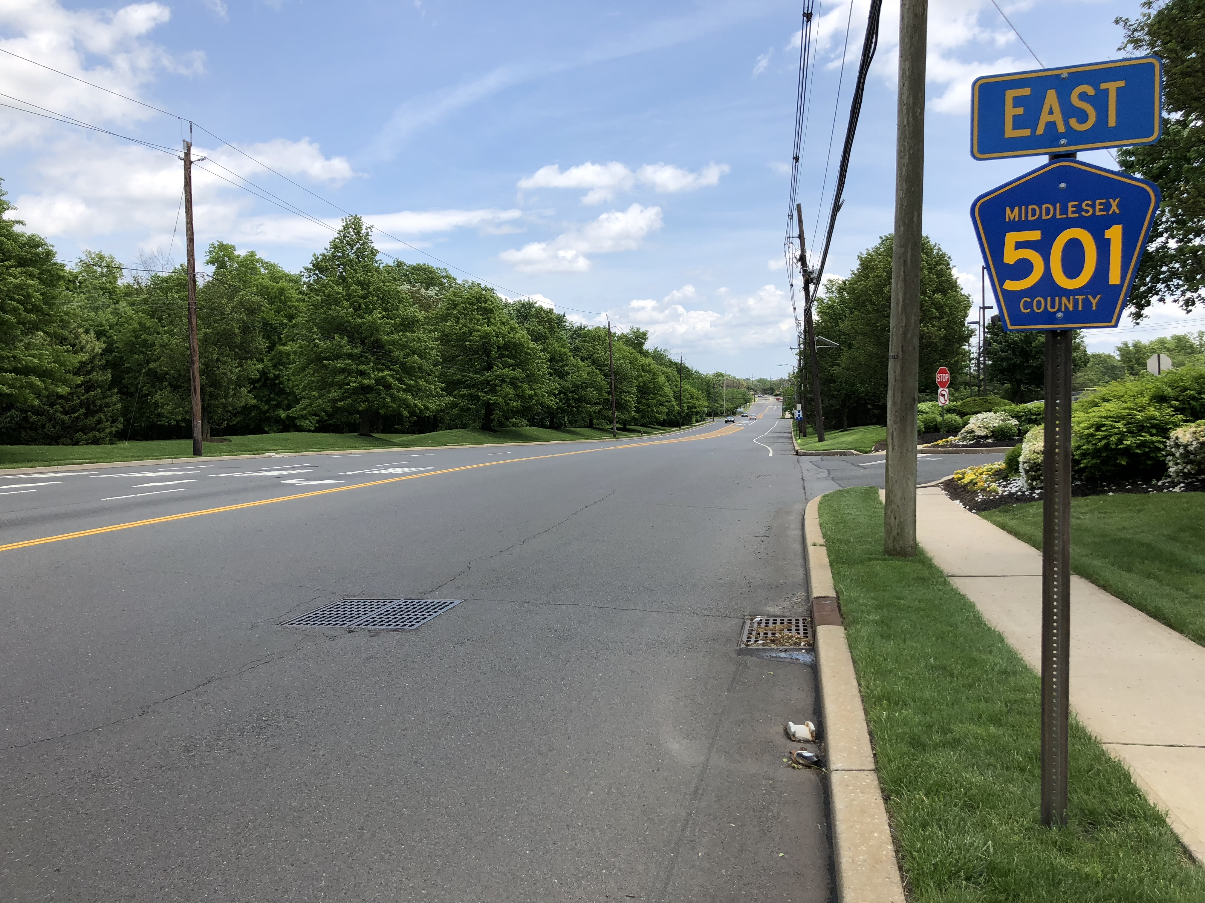 View east along Middlesex County Route 501 (New Durham Road) at Talmadge Road in Edison Township, Middlesex County, New Jersey